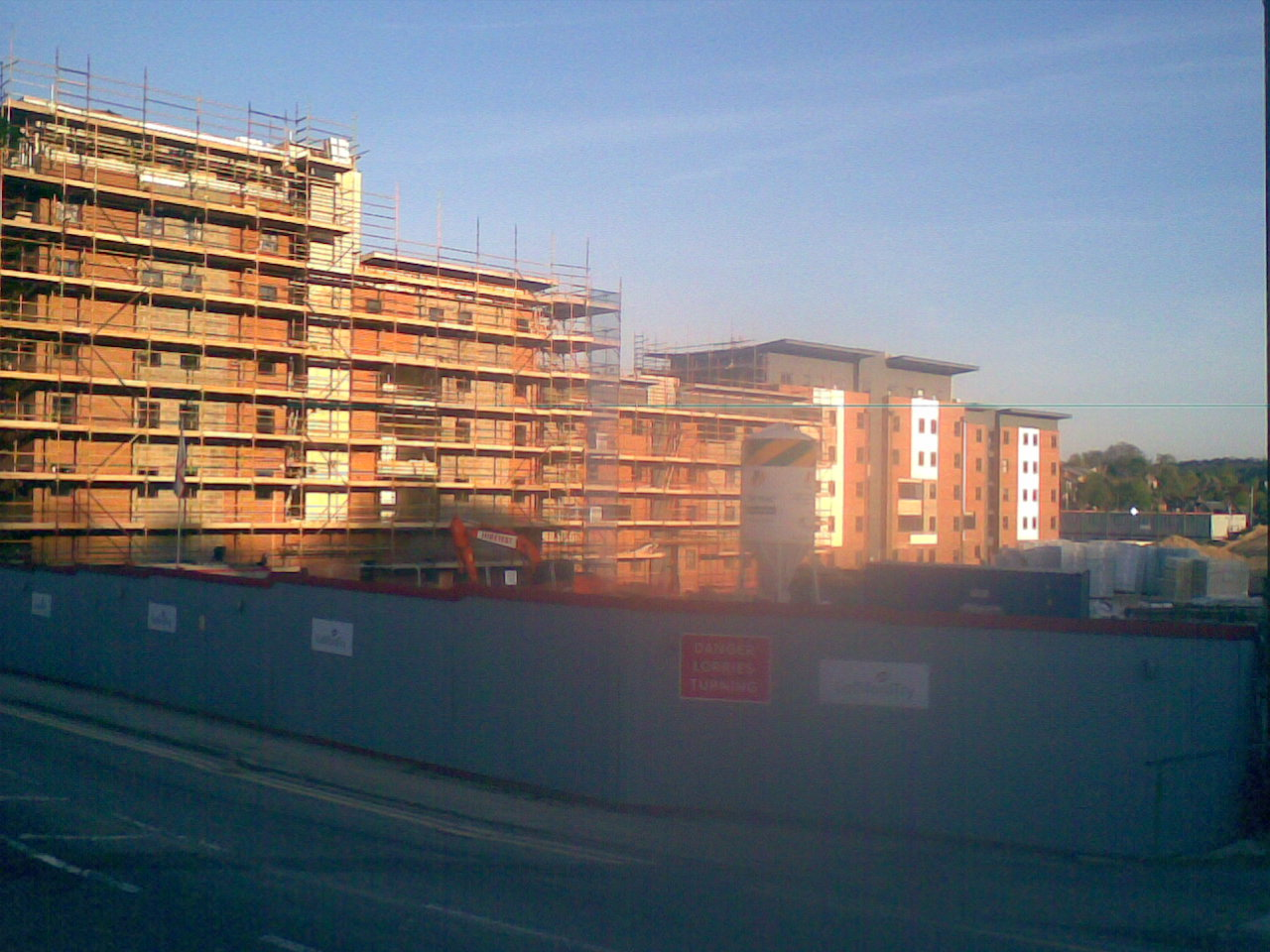 Hughenden halls, completed Summer 2009.